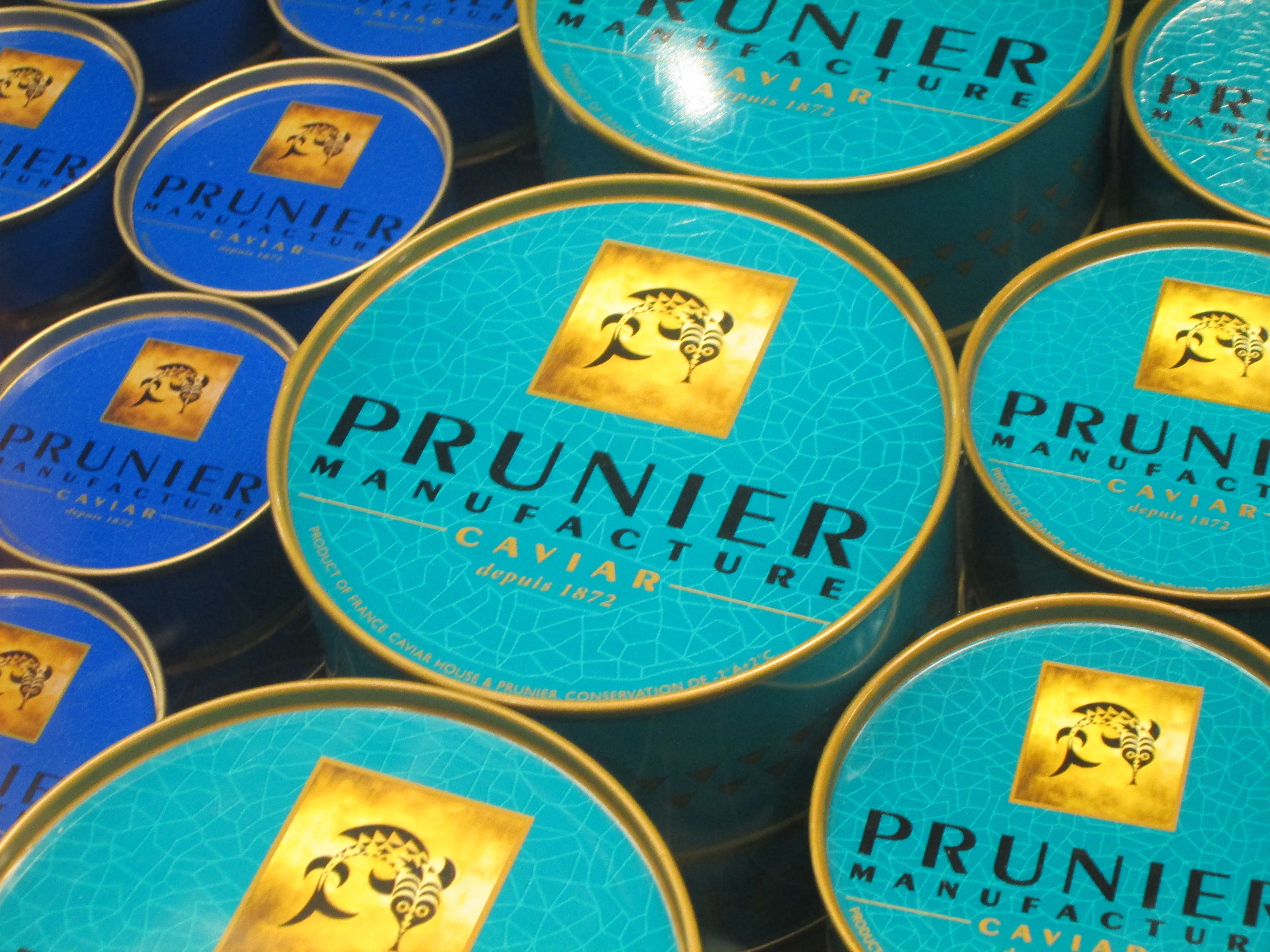 a caviar box costs 10,000 €